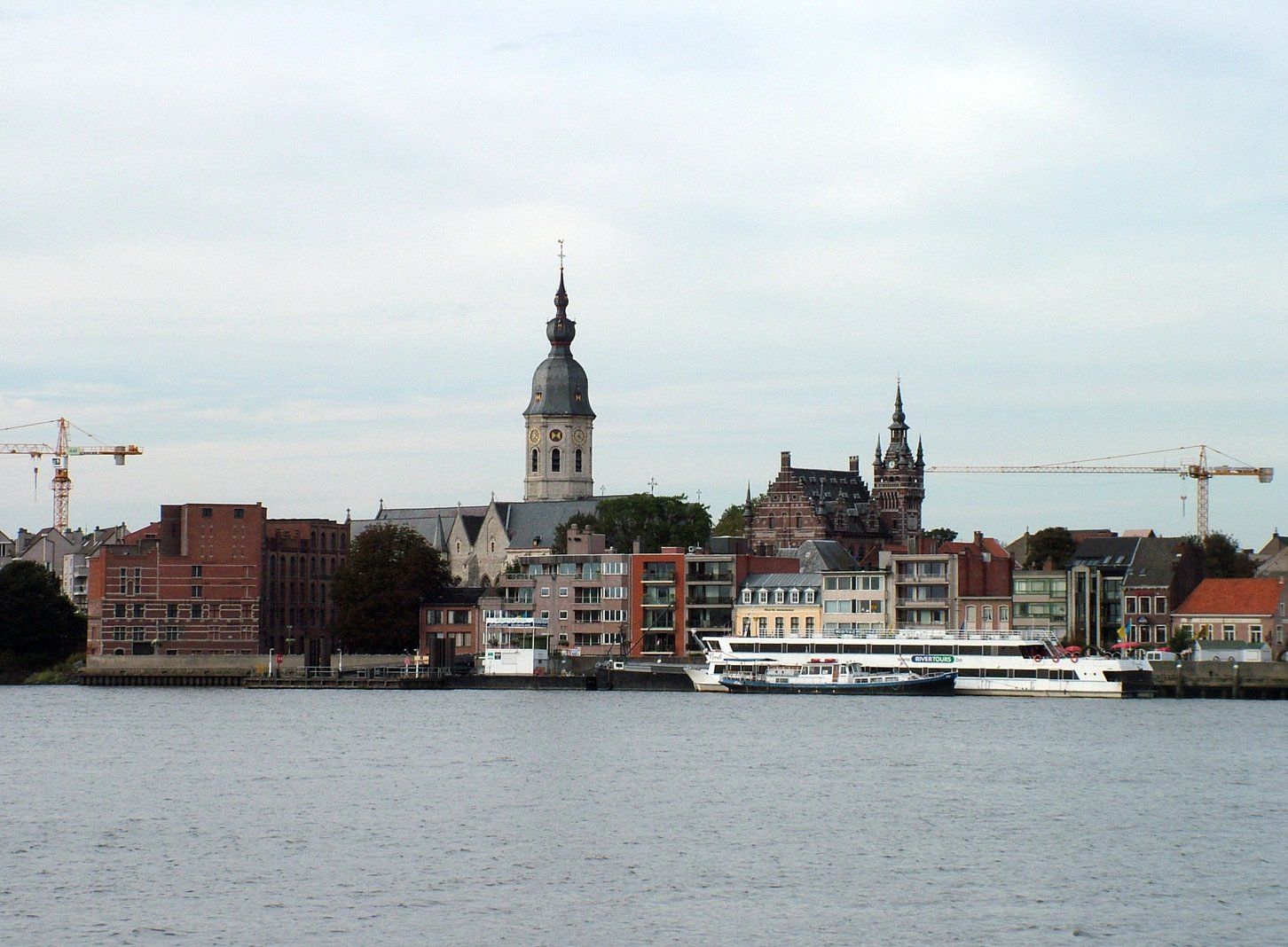 View on the center and quai of Temse